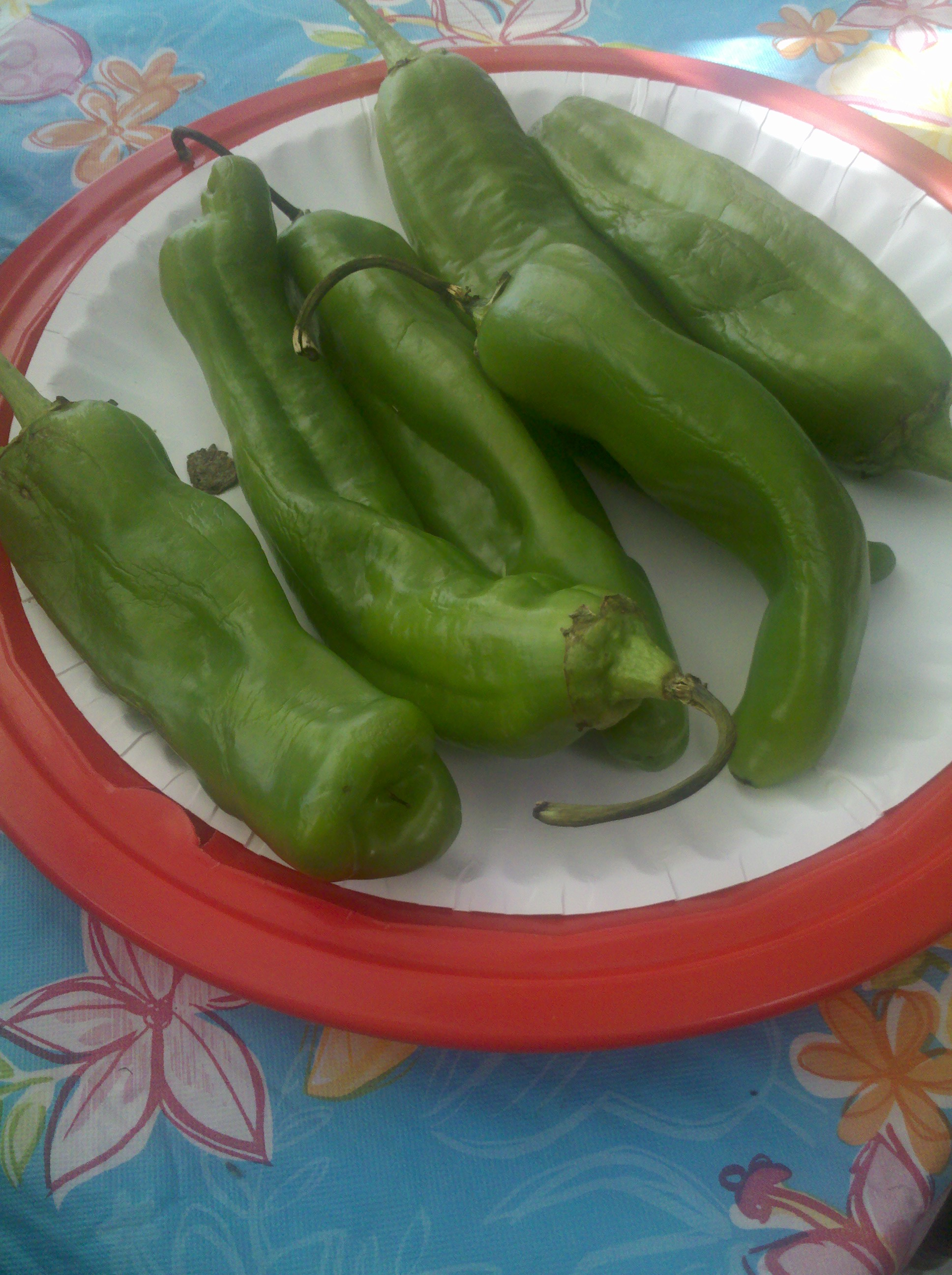 Photo of New Mexico green chile.